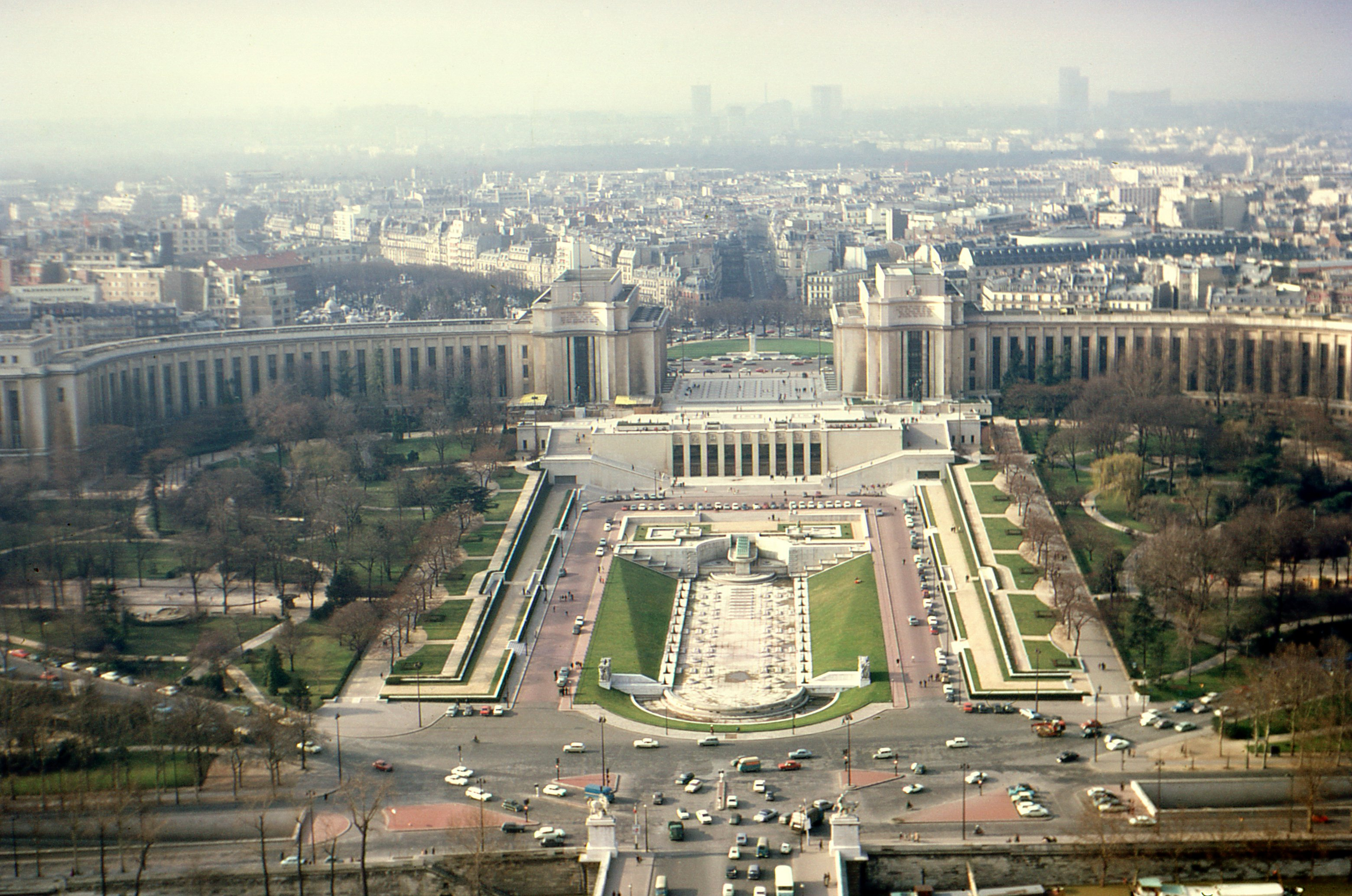 Views of the Paris rooftops. A series of photographs taken from old coloured slides which are sadly expiring with age. Captured in April 1970. Camera: EXA 35mm SLR. Film: Kodachrome 1